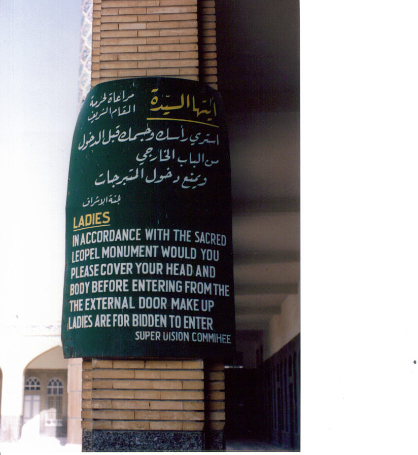 Sign in Arabic and English at Omayyad Mosque, Damascus, Syria, 1992